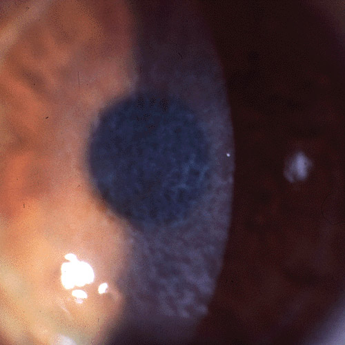 Reis-Bücklers corneal dystrophy. Reticular opacity in the superficial cornea. Klintworth Orphanet Journal of Rare Diseases 2009 4:7